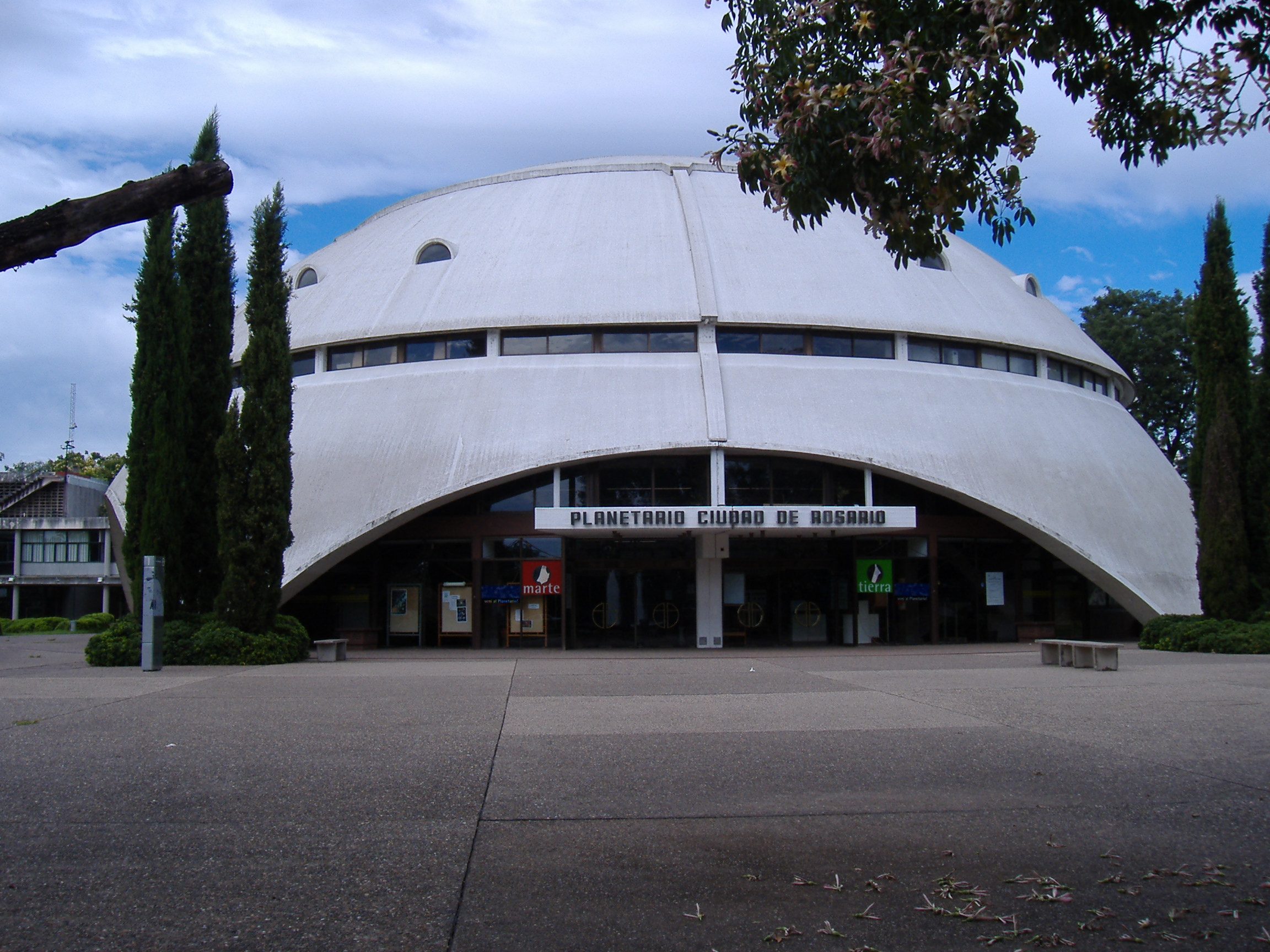 Planetario Ciudad de Rosario Luis Cándido Carballo, the public municipal planetarium of Rosario, Argentina. This building is located within the Urquiza Park, near the Paraná River, on the southern end of the central district.